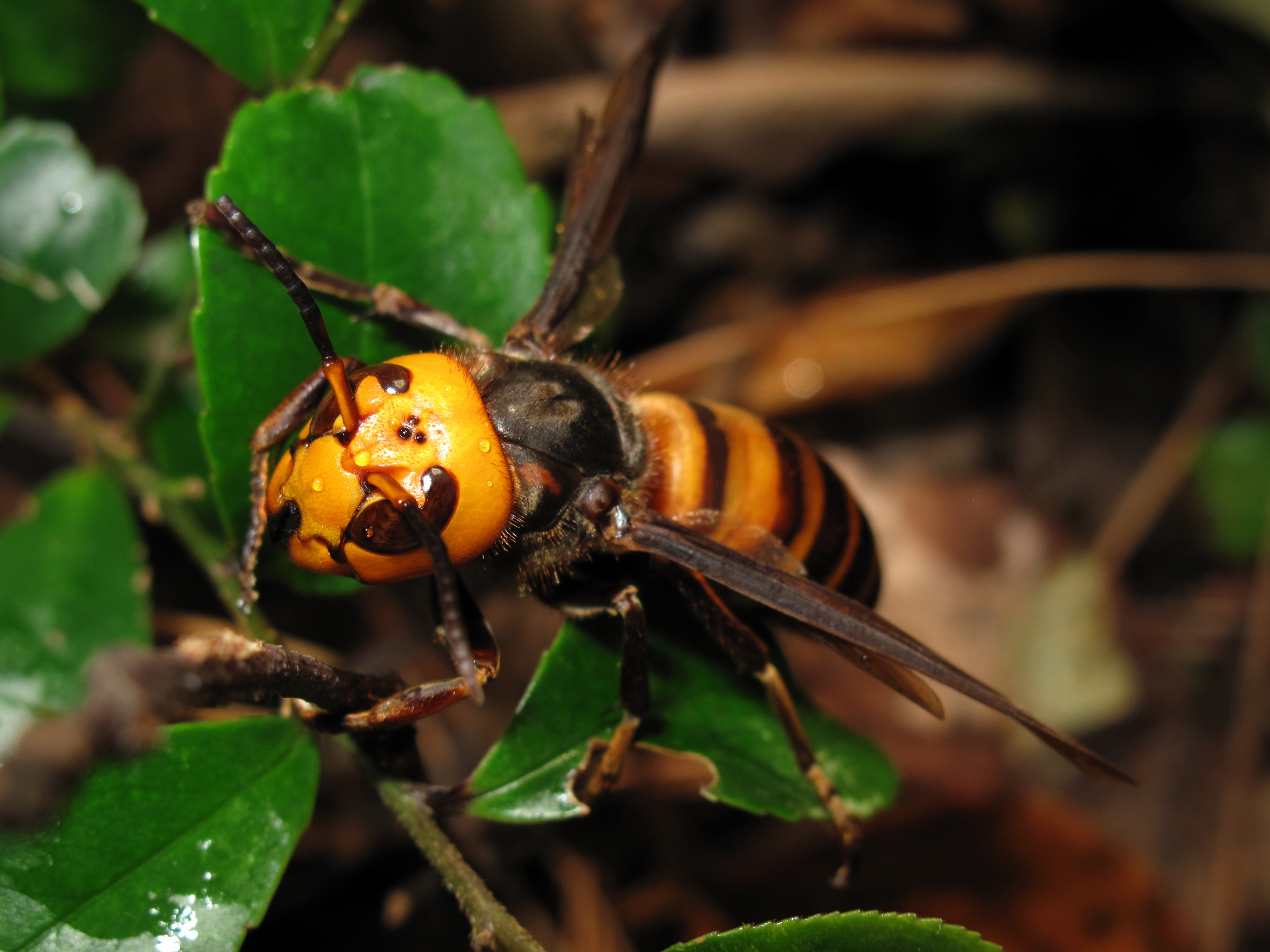 female Vespa mandarinia japonica